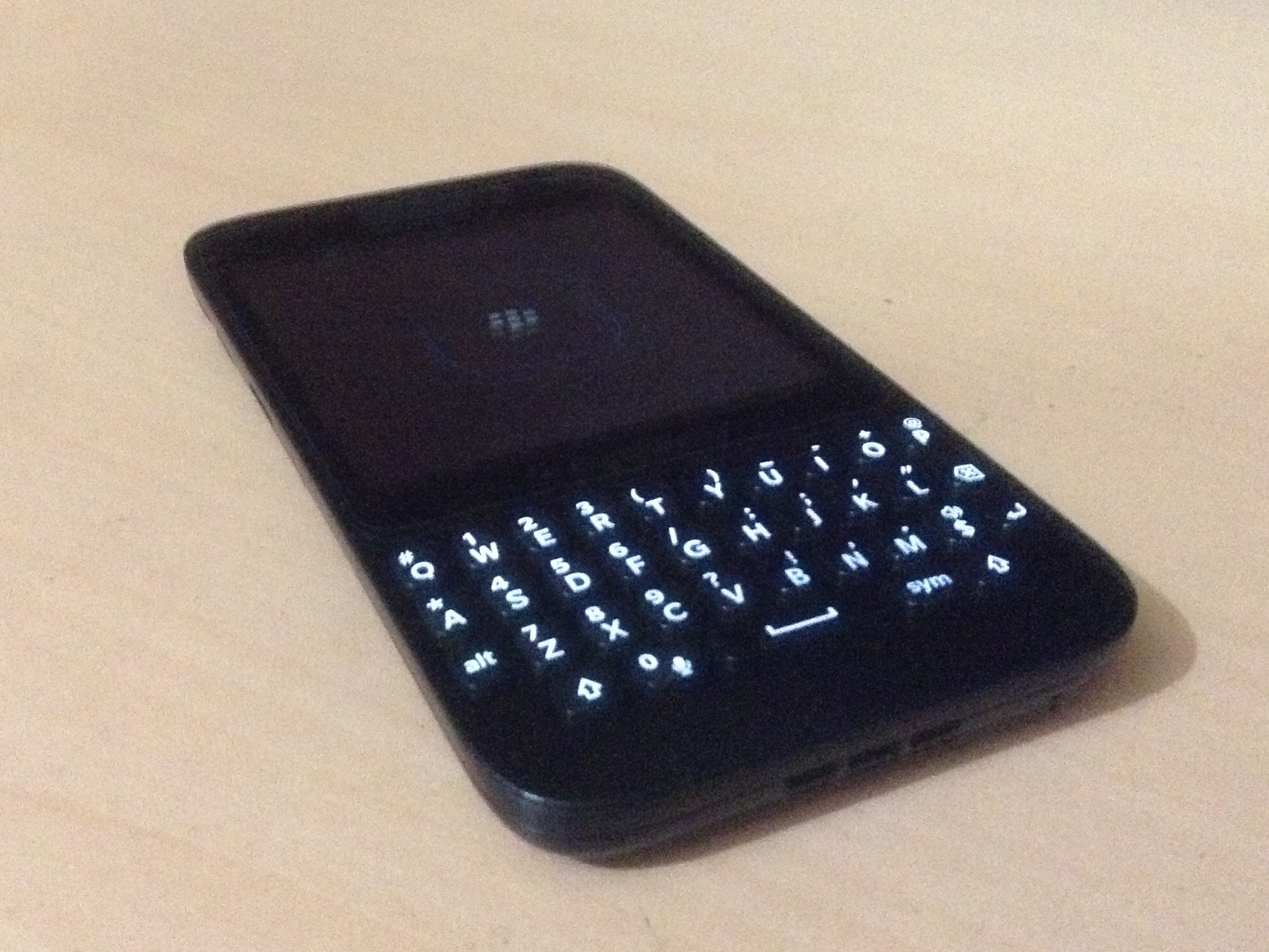 BlackBerry Q5 Handheld Device